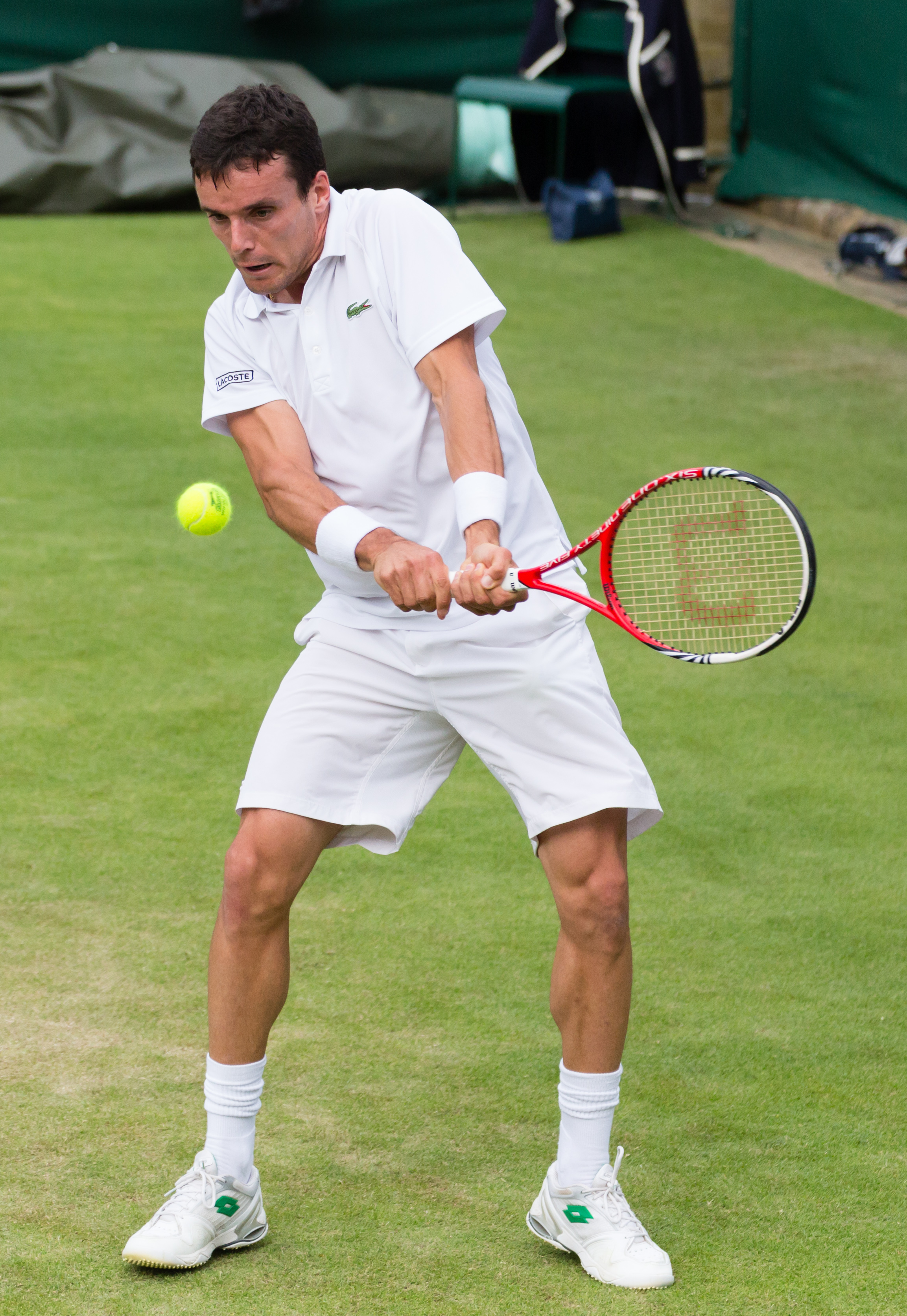 Roberto Bautista-Agut in the first round at Wimbledon in 2013.